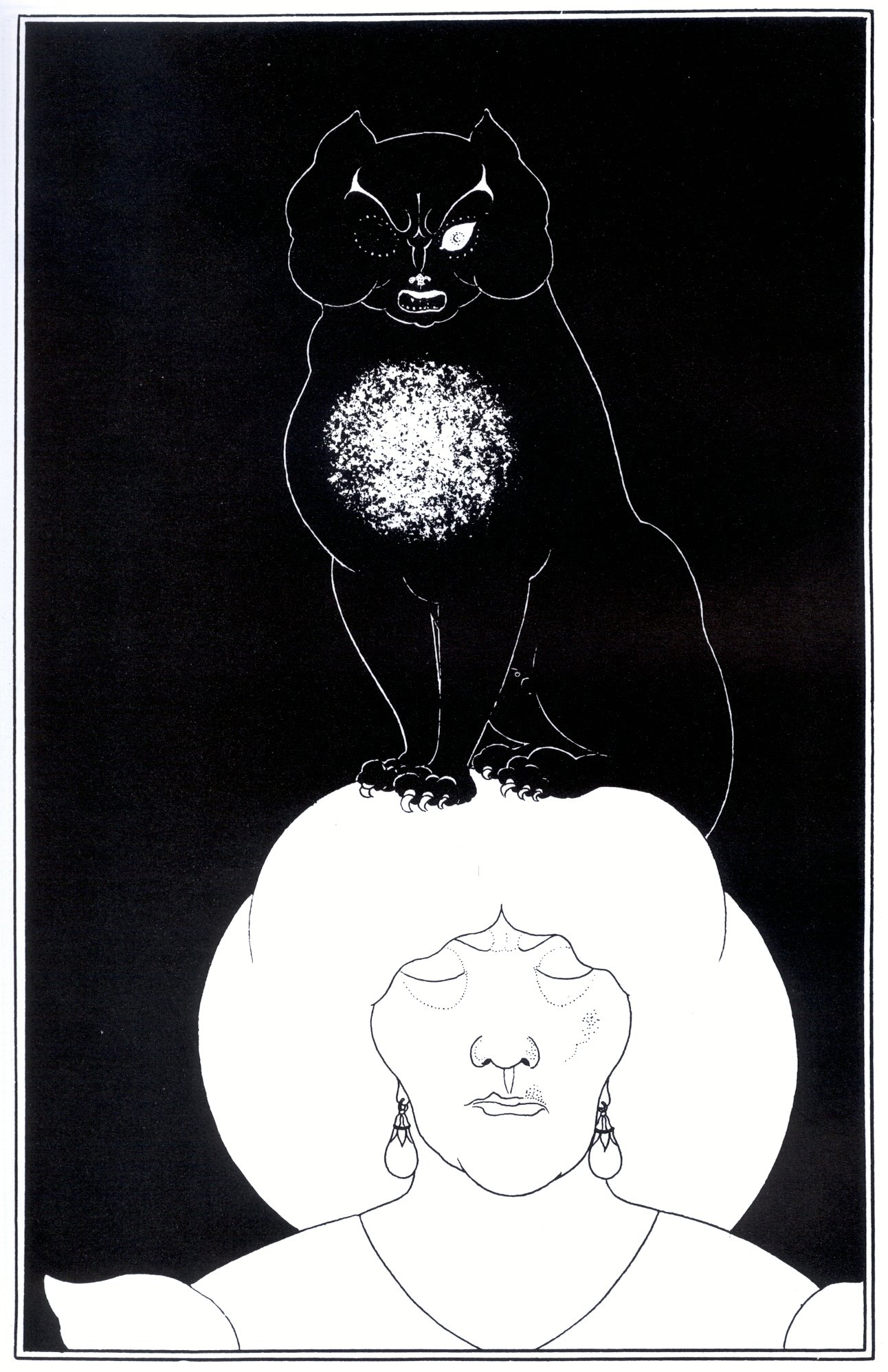 The Black Cat, 1894-1895. Illustrations of short stories by Edgar Allan Poe